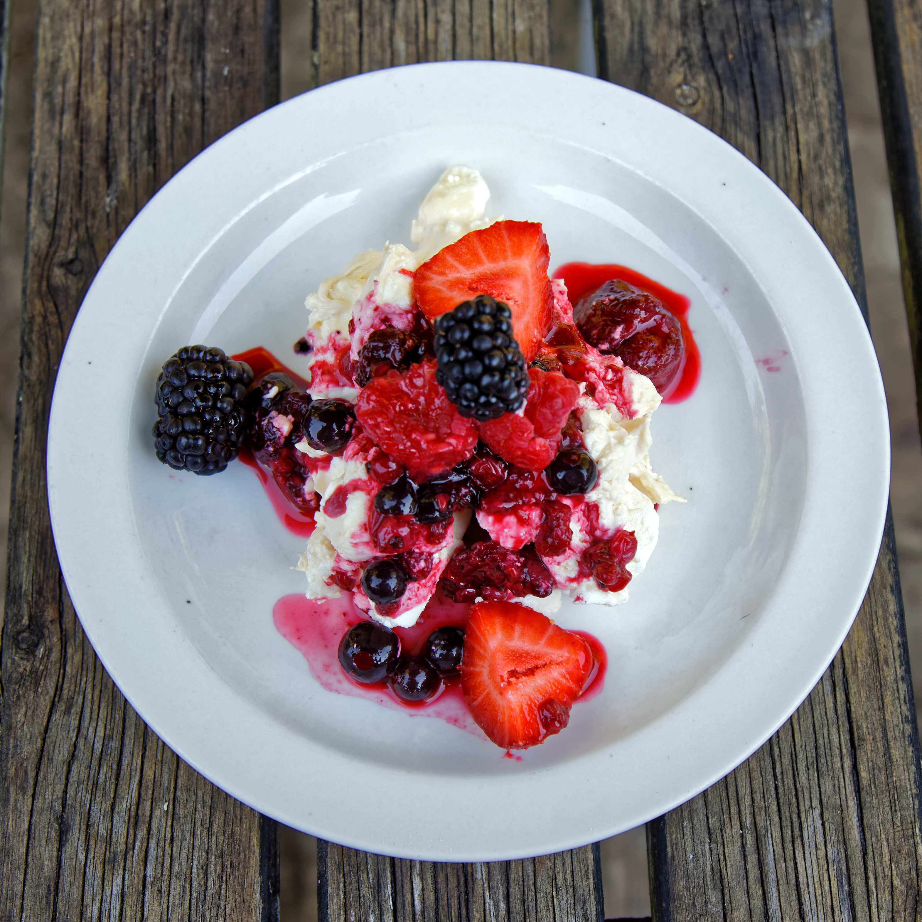 Eton mess, a modern take with with summer fruits of strawberries, blackberries, black currents and plum, at the The Black Horse Inn public house on Nuthurst Street in Nuthurst, West Sussex, England.Camera: Canon EOS 6D Mark II with Canon EF 24-105mm F4L IS USM lens.Software: RAW file lens-corrected, optimized and converted to JPEG with DxO PhotoLab, and likely further optimized and/or cropped and/or spun with Adobe Photoshop CS2.